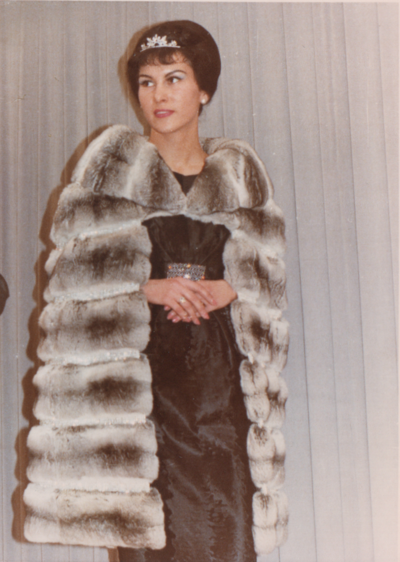 Broadtail fur dress and Chinchilla cape, fur fair in Frankfurt am Main 1964, Germany